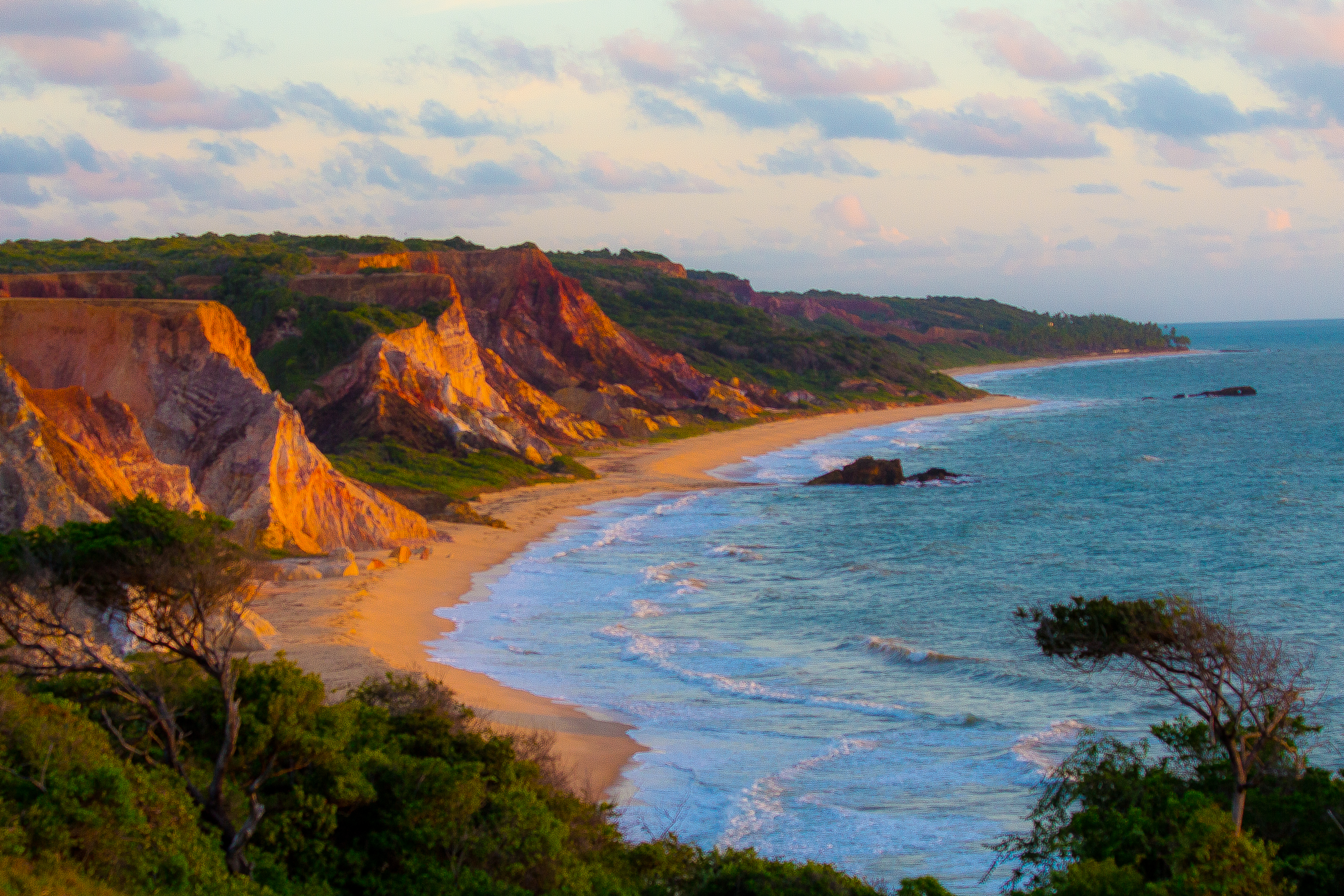 Sunrise at Tambara beach at Paraiba, Brazil.